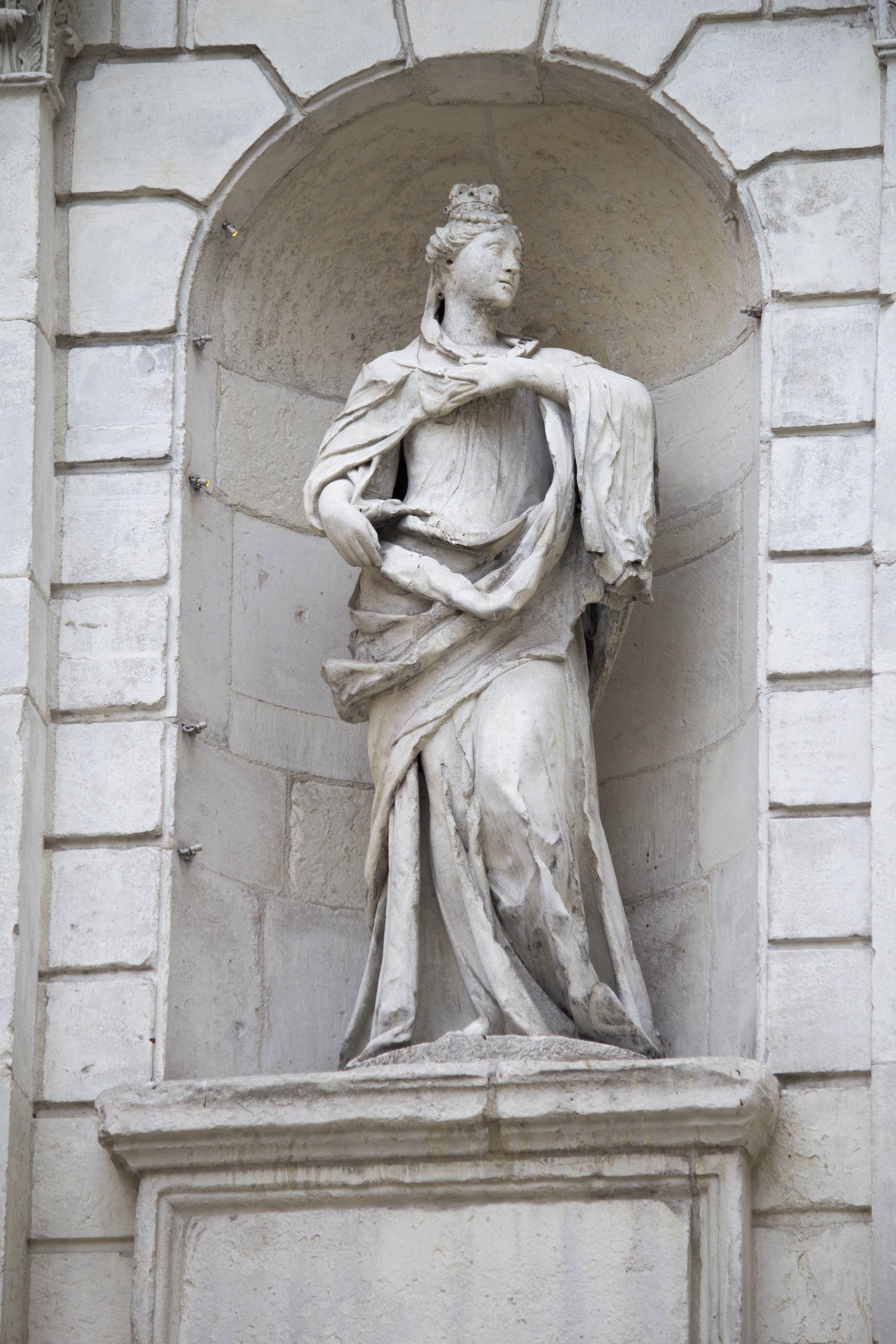 Temple Bar